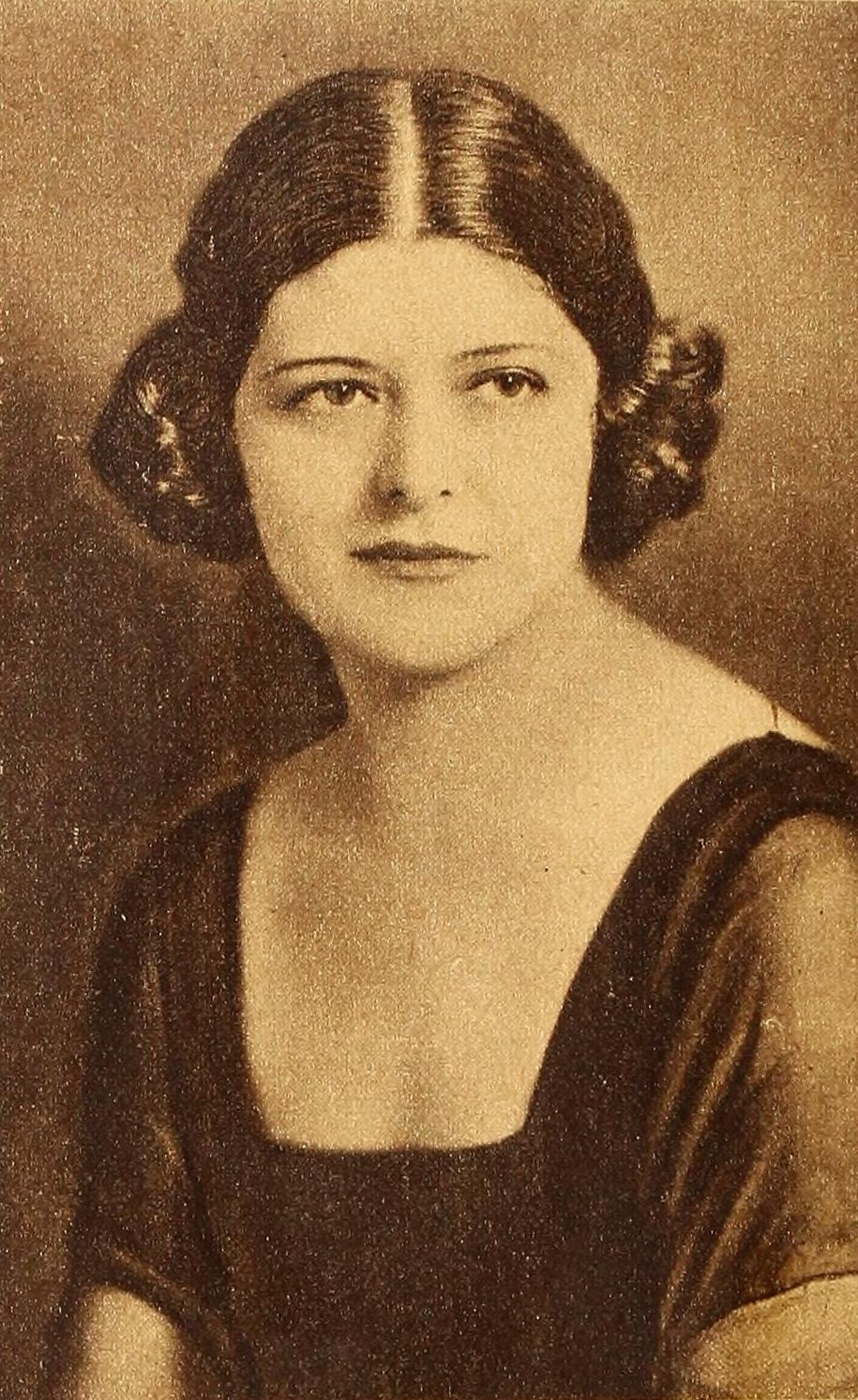 Actress Dorothy Green on page 24 of the December 1919 Shadowland.